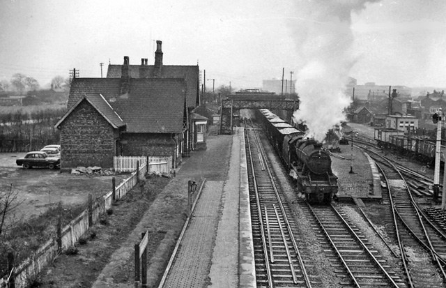 Baguley Station. View from A5103 bridge eastward towards Stockport on former Cheshire Lines main line Glazebrook - Stockport (Tiviot Dale) - Godley Junction. A heavy Peak Forest - Northwich (ICI Winnington) limestone train is passing, hauled by a Class 8F 2-8-0. The station was closed in November 1964.